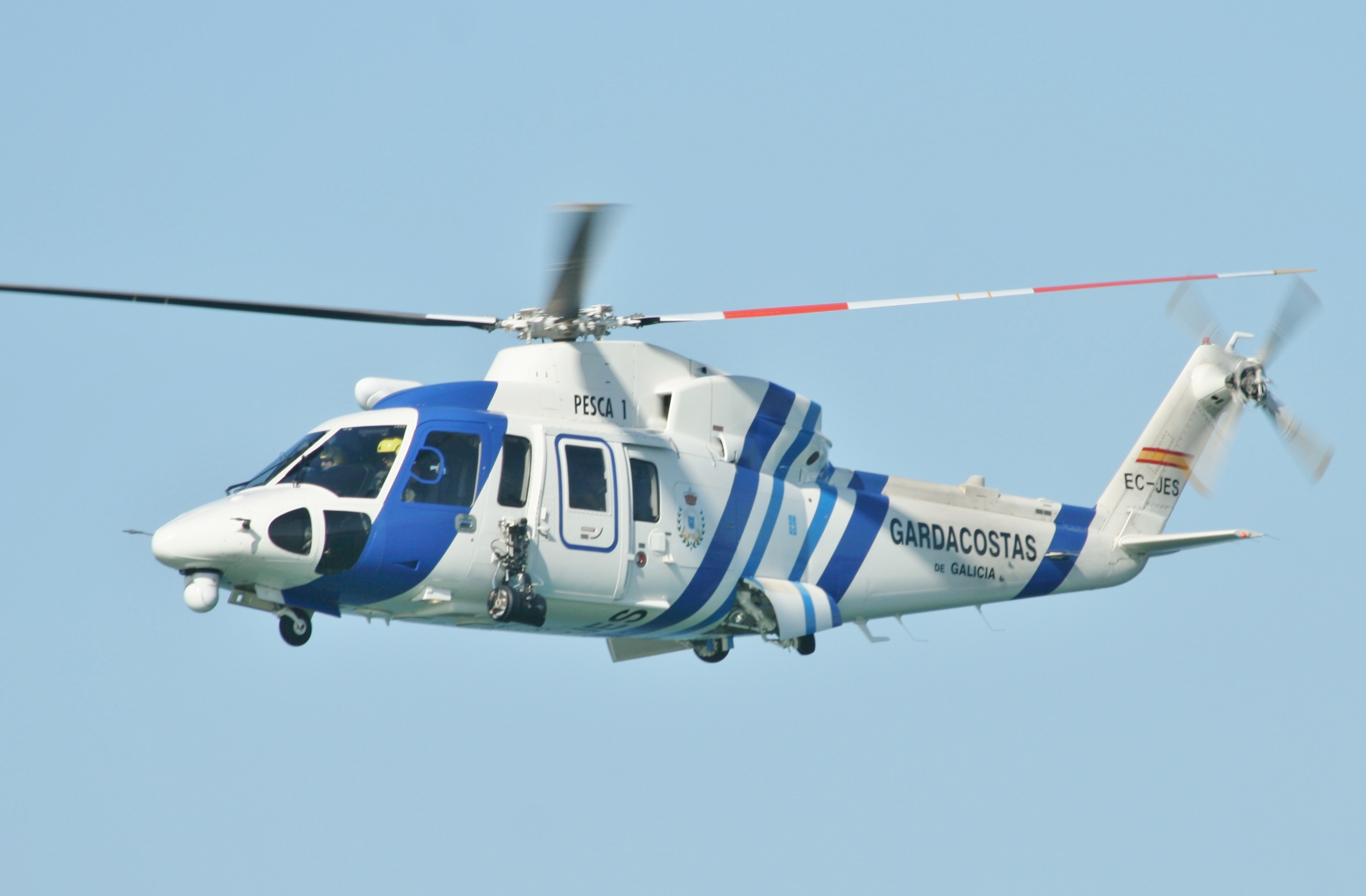 Helicóptero Sikorsky 76 C+ (EC-JES) "Pesca 1" del Servicio de Guardascostas de Galicia, durante el Festival Aéreo de Vigo (Galicia, España). Fishing 1. Helicopter Sikorsky 76 C + (EC-JES) "Fishing 1" of the Service of Coast Guards of Galicia, during the Airshow of Vigo (Galicia, Spain).